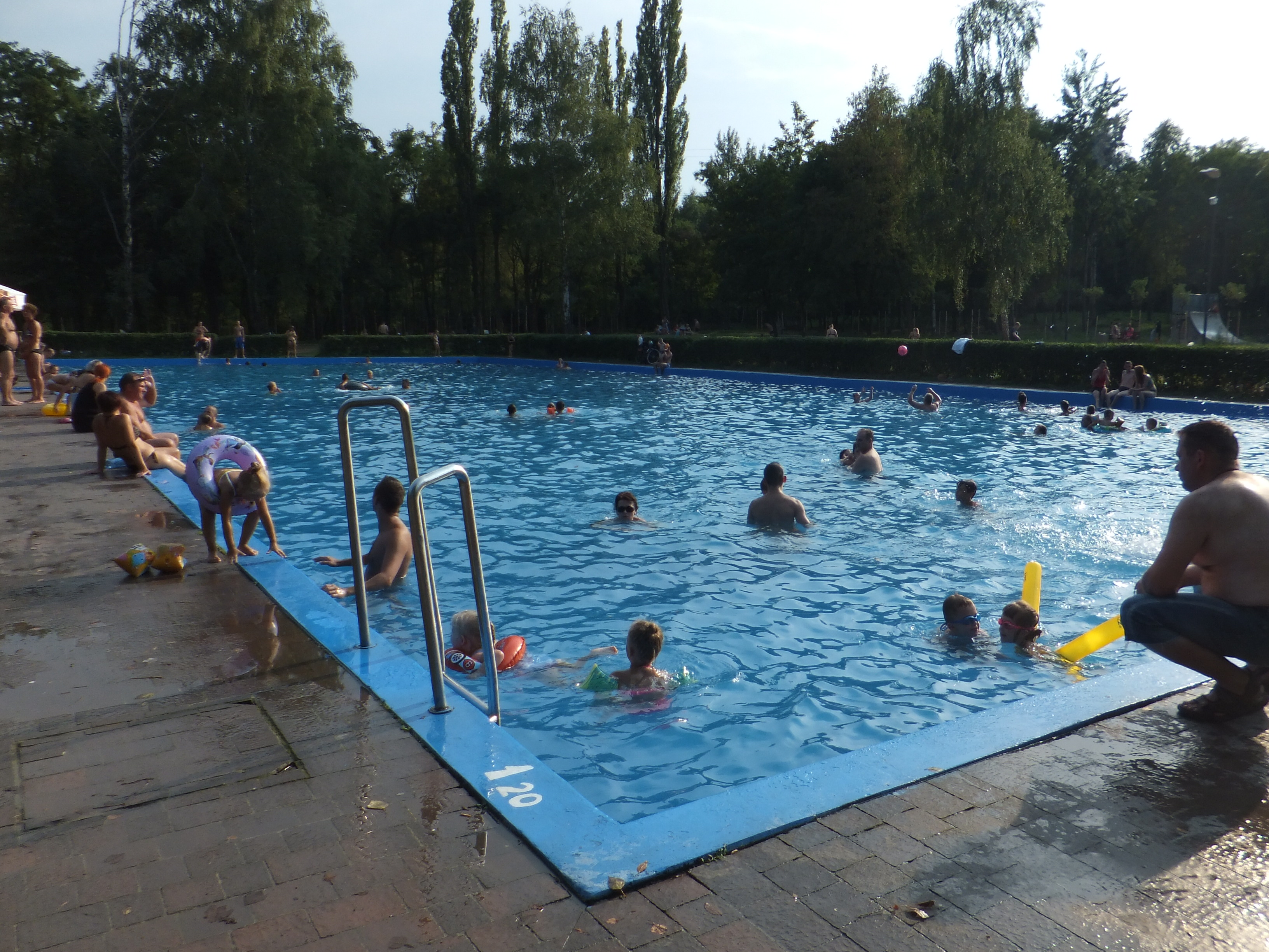 Pool (ie. "masełko"; in Polish "masełko" means "butter") in the sports and recreation center "Zalew" in Lędziny (Poland).